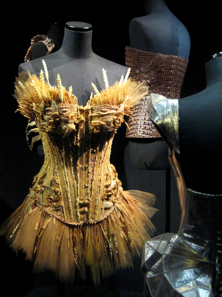 Jean-Paul Gaultier bustier-style dress at a Montreal, Canada exposition in 2011